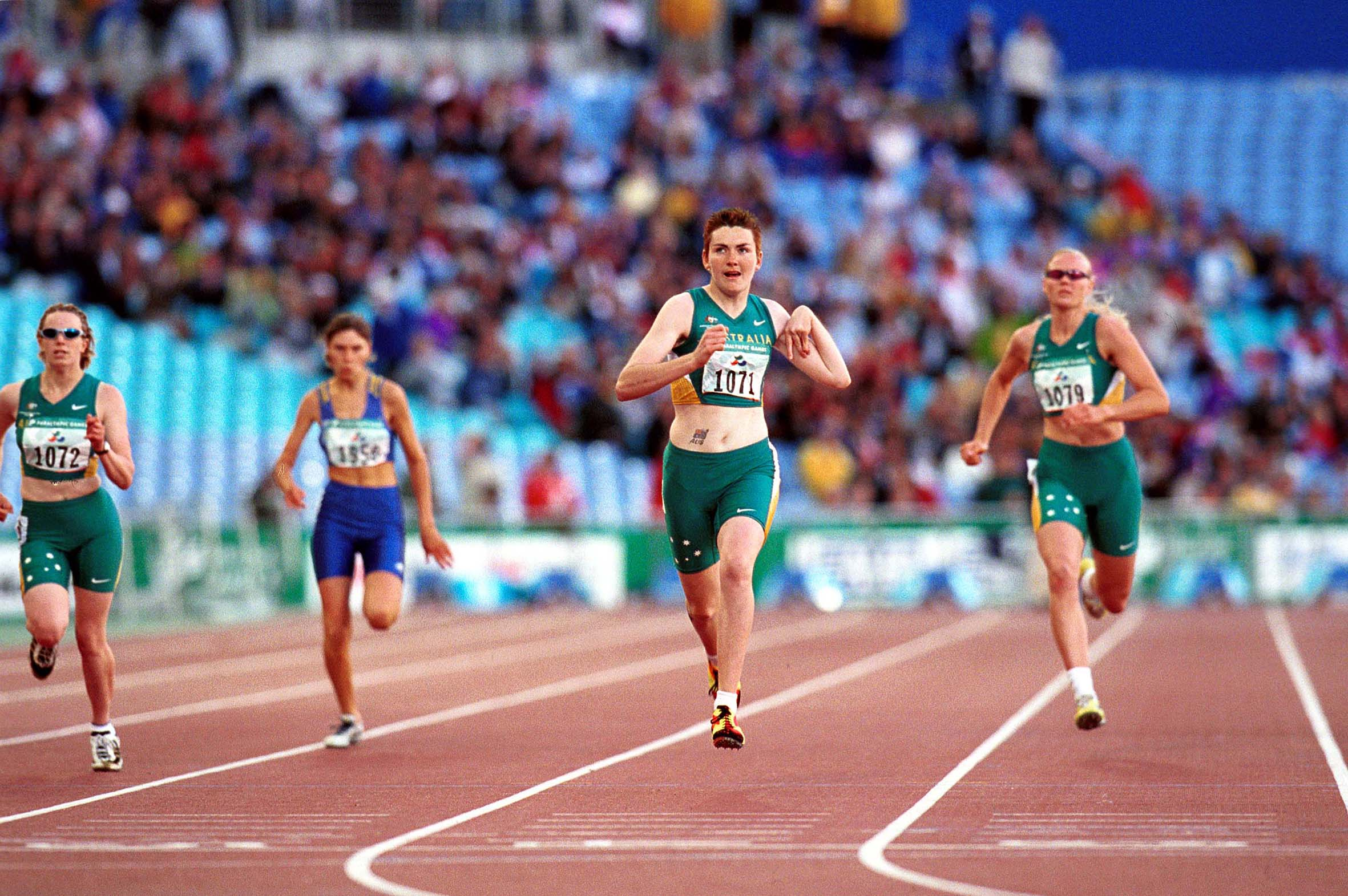 Action shot of Australian track athlete Lisa McIntosh as she wins gold in the 200 m T38 at the 2000 Sydney Paralympic Games